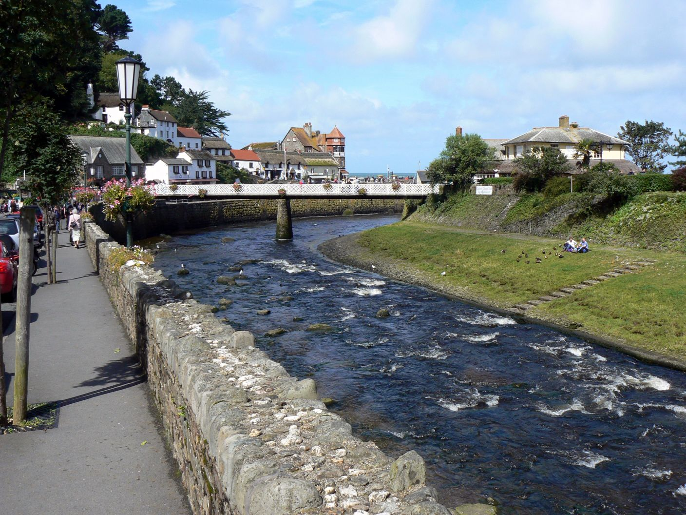 Lyn river in Lynmouth